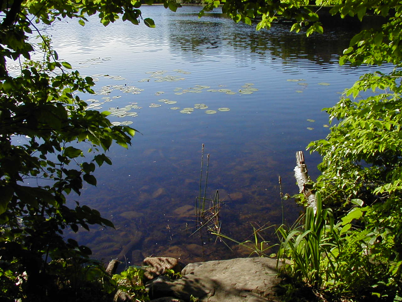 Taken by Pete Nelson while hiking at Jensen Lake in Lebanon Hills Regional Park, Dakota County, MN (original file name: P6170011.jpg)